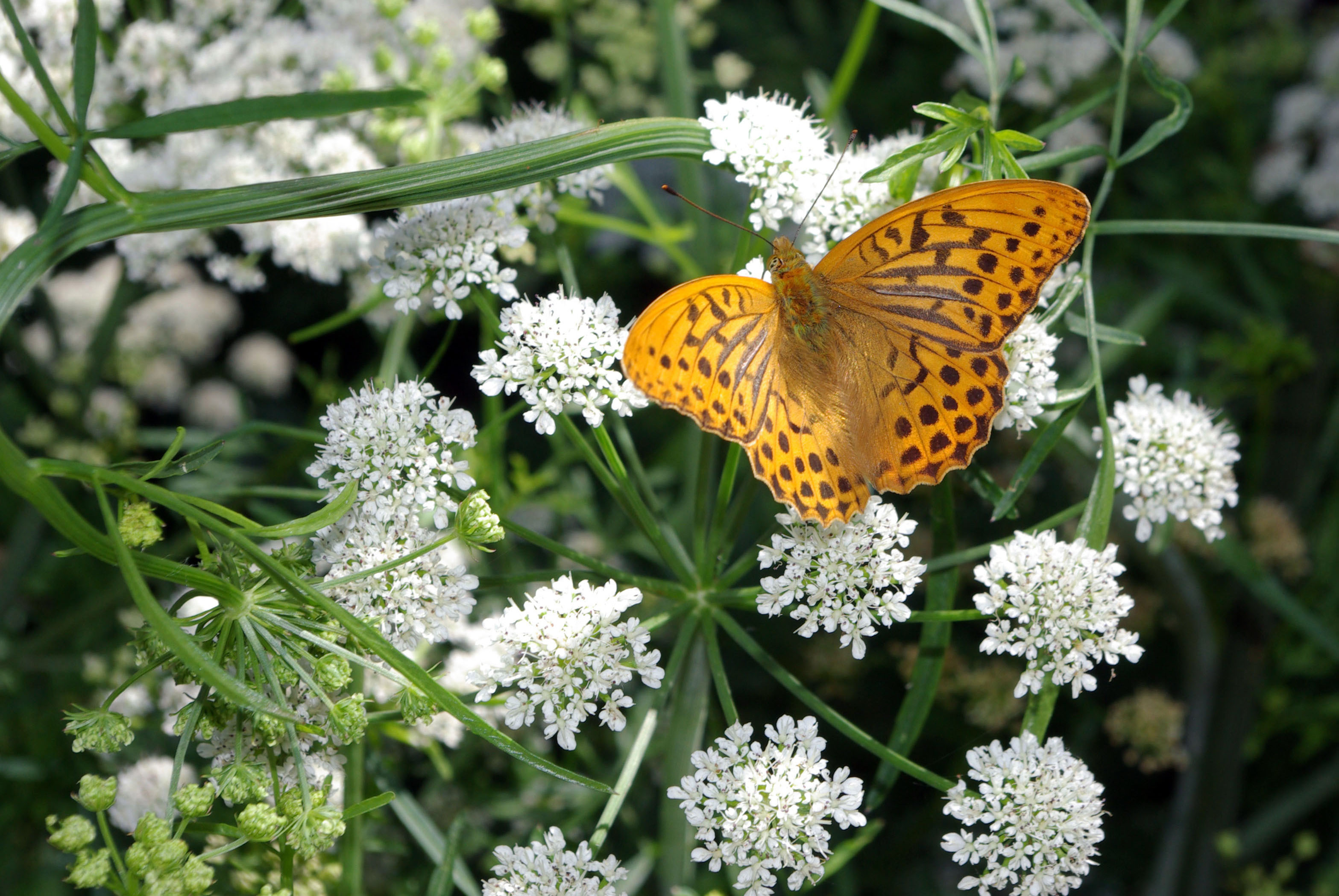 Silver-washed Fritillary (Argynnis paphia) on Oenanthe crocata. Photo taken near Pentes (A Gudiña, Ourense, Spain)